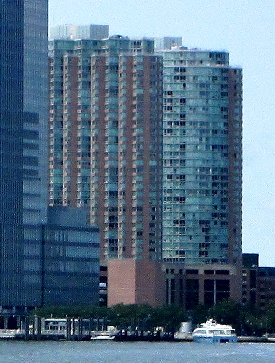 Liberty Towers East (left) and West (right) are 37-story apartment buildings built in 2001-03 and designed by Jordan Gruzen of Gruzen Samton. They are seen here showing from behind the Goldman Sachs Tower (30 Hudson Street), as seen from Battery Park City in Manhattan, New York City.